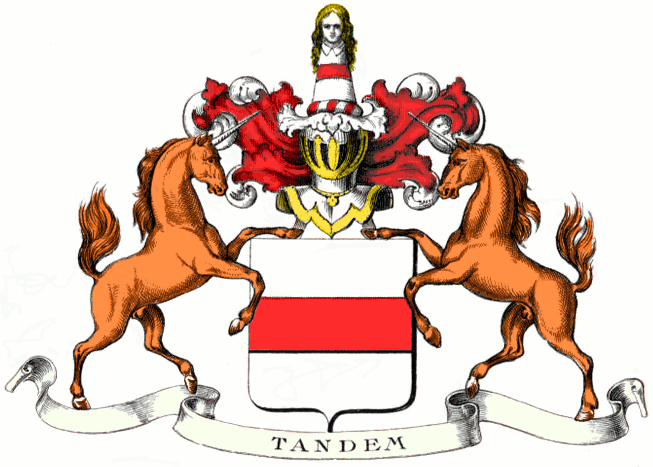 Coat of arms of the family Taets van Amerongen